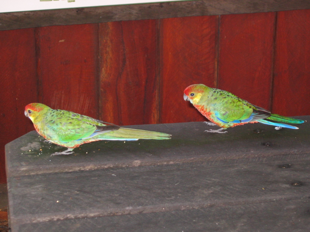 Immature male Platycercus icterotis (Western Rosella) at the Gloucester Tree picnic area, Pemberton, Western Australia.